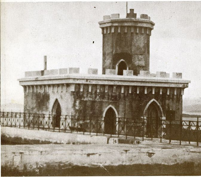 the "Vålandstårn" (Våland-tower) in Stavanger, photographed in 1895 when it was new.